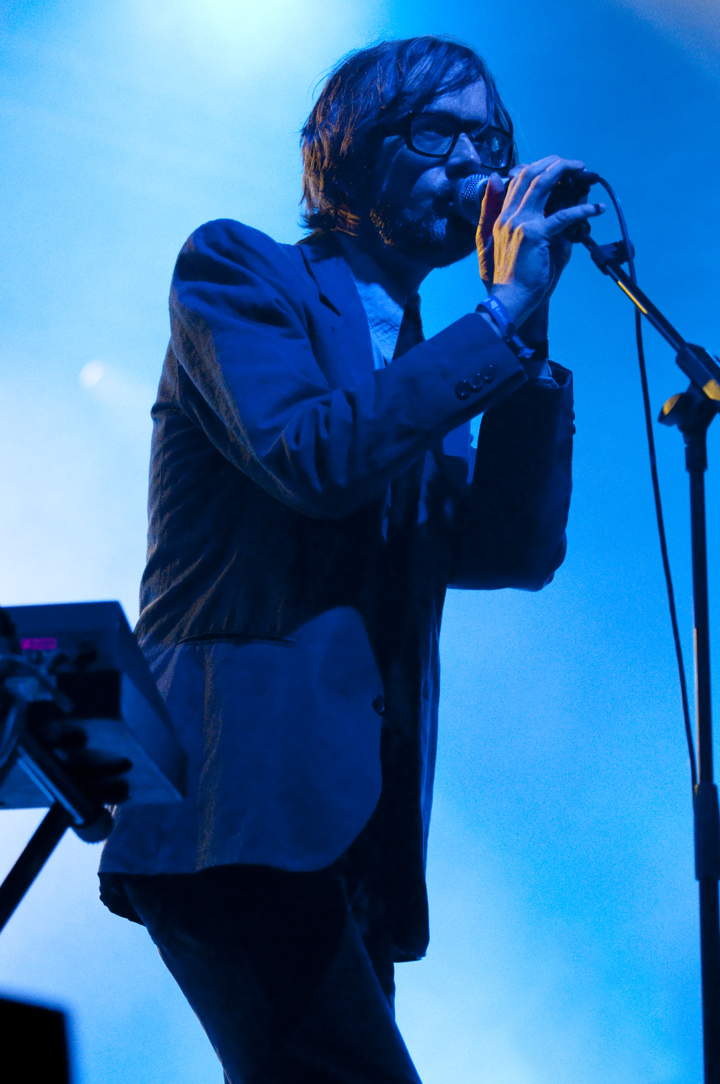 Jarvis Cocker